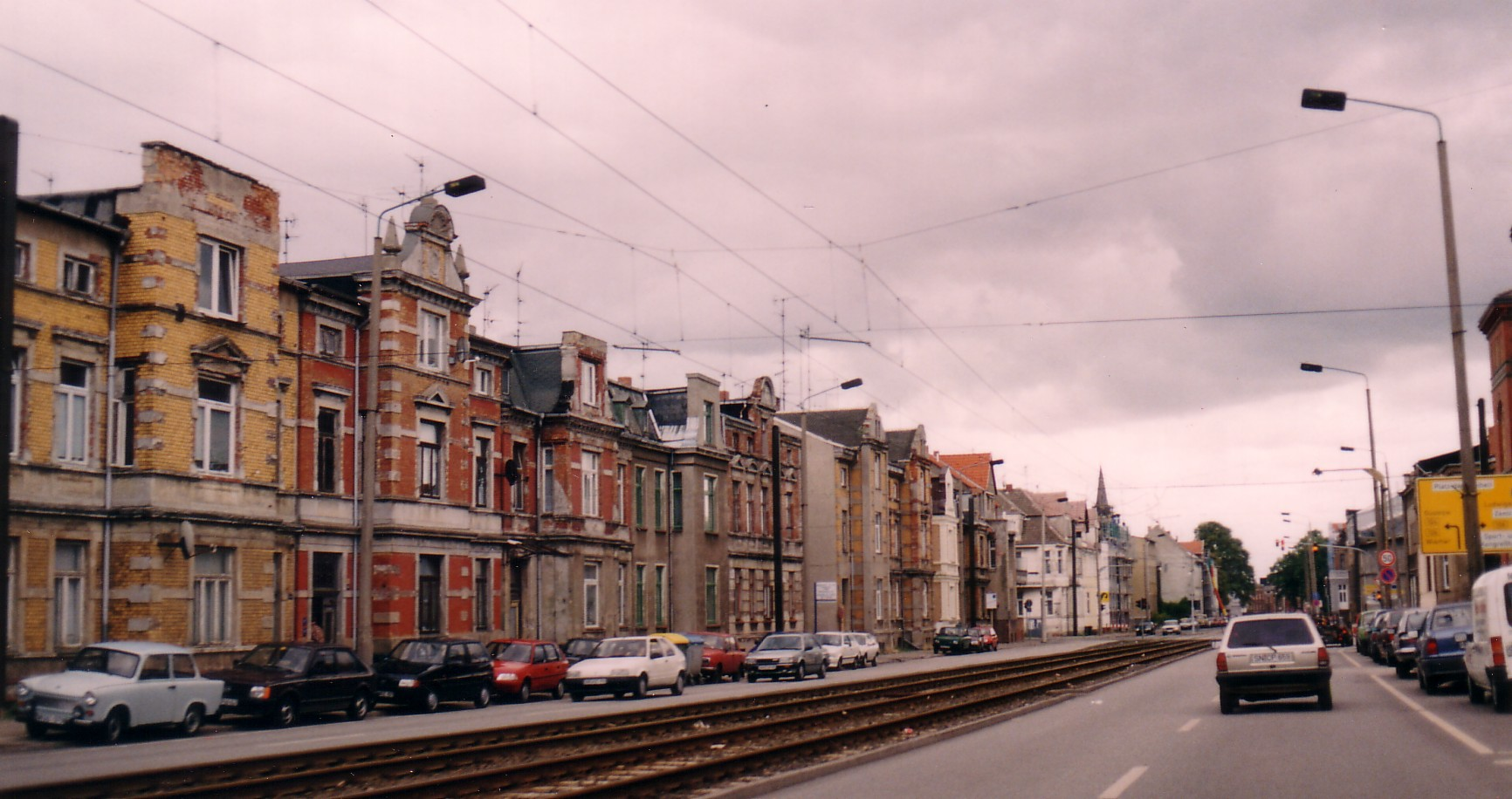 The Lübecker Straße in Schwerin, Mecklenburg, Germany